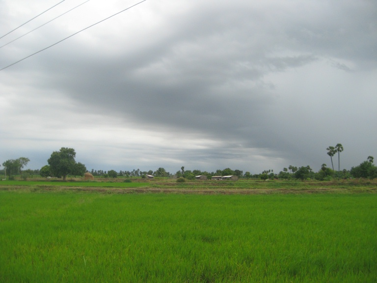 A typical rice field in Damaramadugu village.